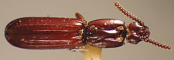 Rhyzodiastes montrouzieri, New Caledonia: Noumea